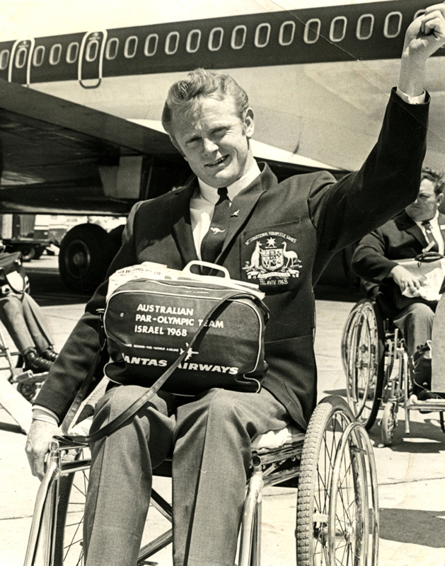 Paralympian Jeff Simmonds waves on the tarmac prior to boarding the Qantas flight that took the Australian Paralympic Team to the 1968 Tel Aviv Paralympic Games.